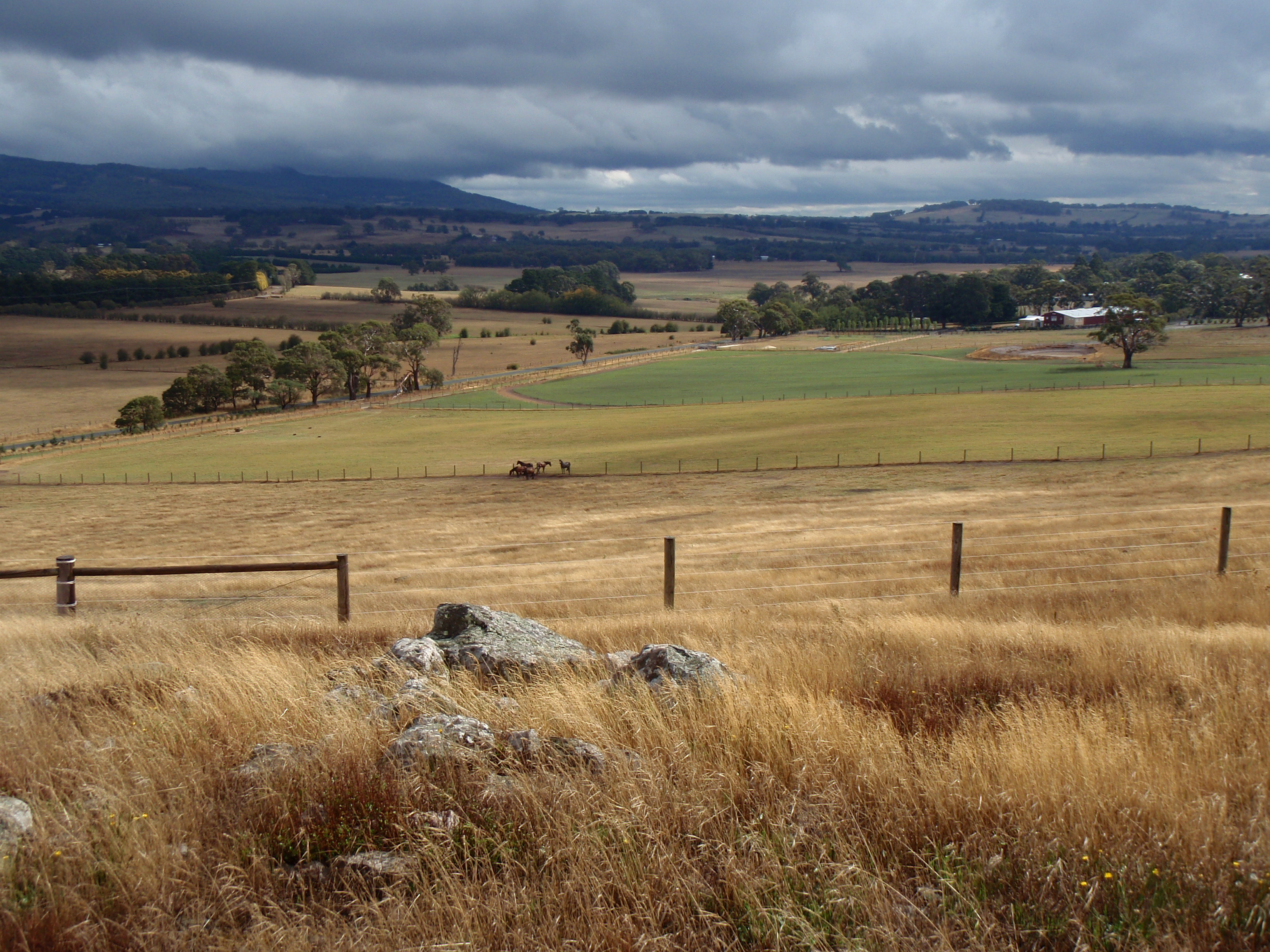 Overlooking the Rochford, Victoria locality, facing west.